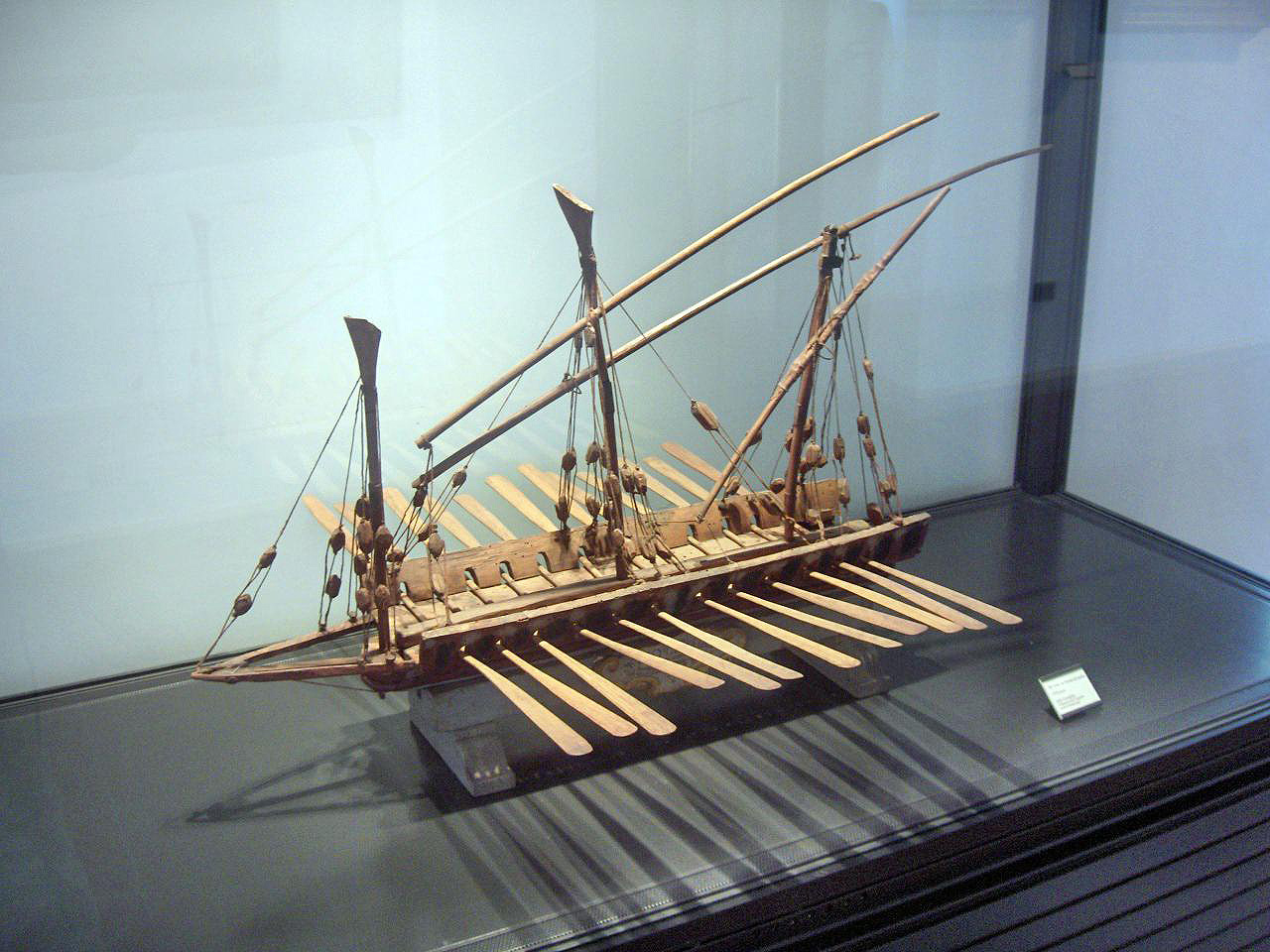 Wooden model of a galley